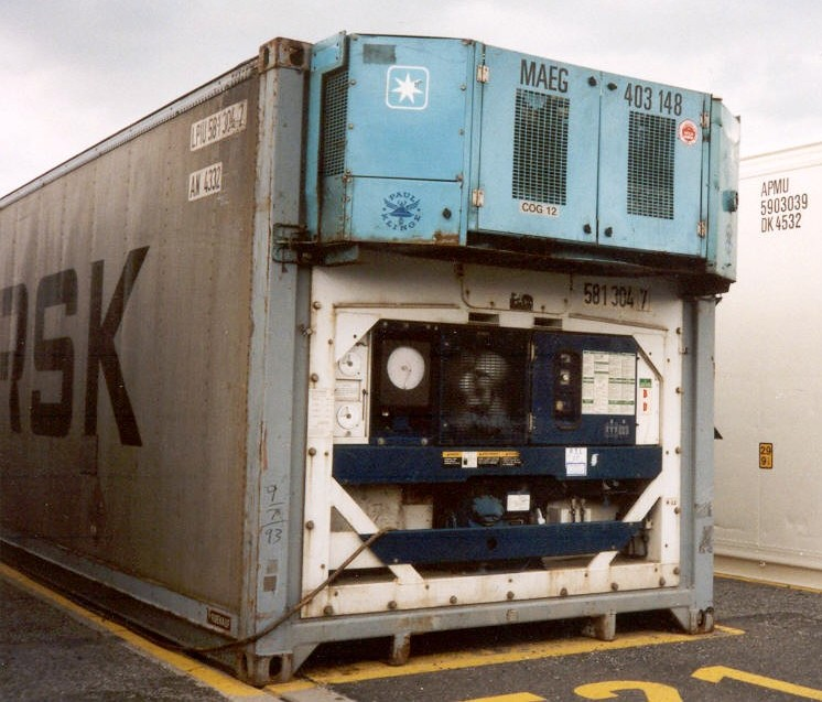 Reefer Container with diesel generator